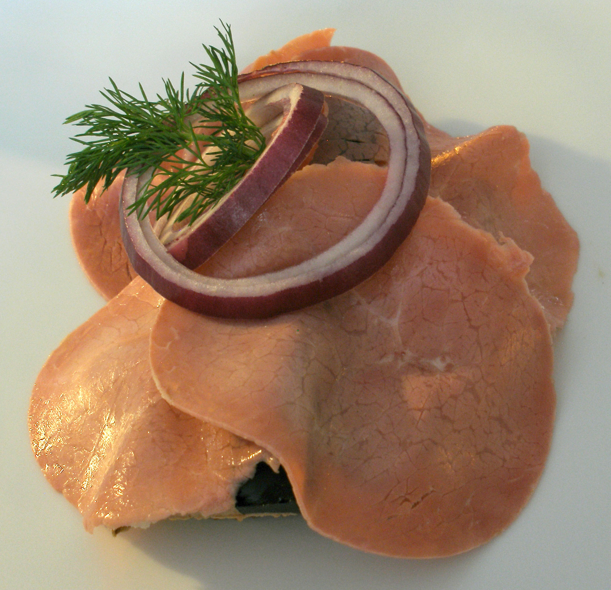 Decorated open-faced sandwich (pyntet smørrebrød) with name "Dyrlægens Natmad", Restaurant Ida Davidsen, St. Kongensgade 70, Copenhagen, Denmark